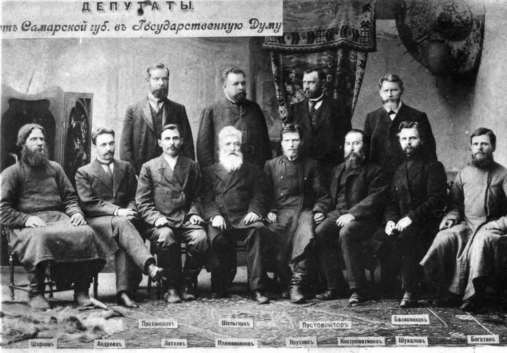 Members of State Duma from Samara province (1906)